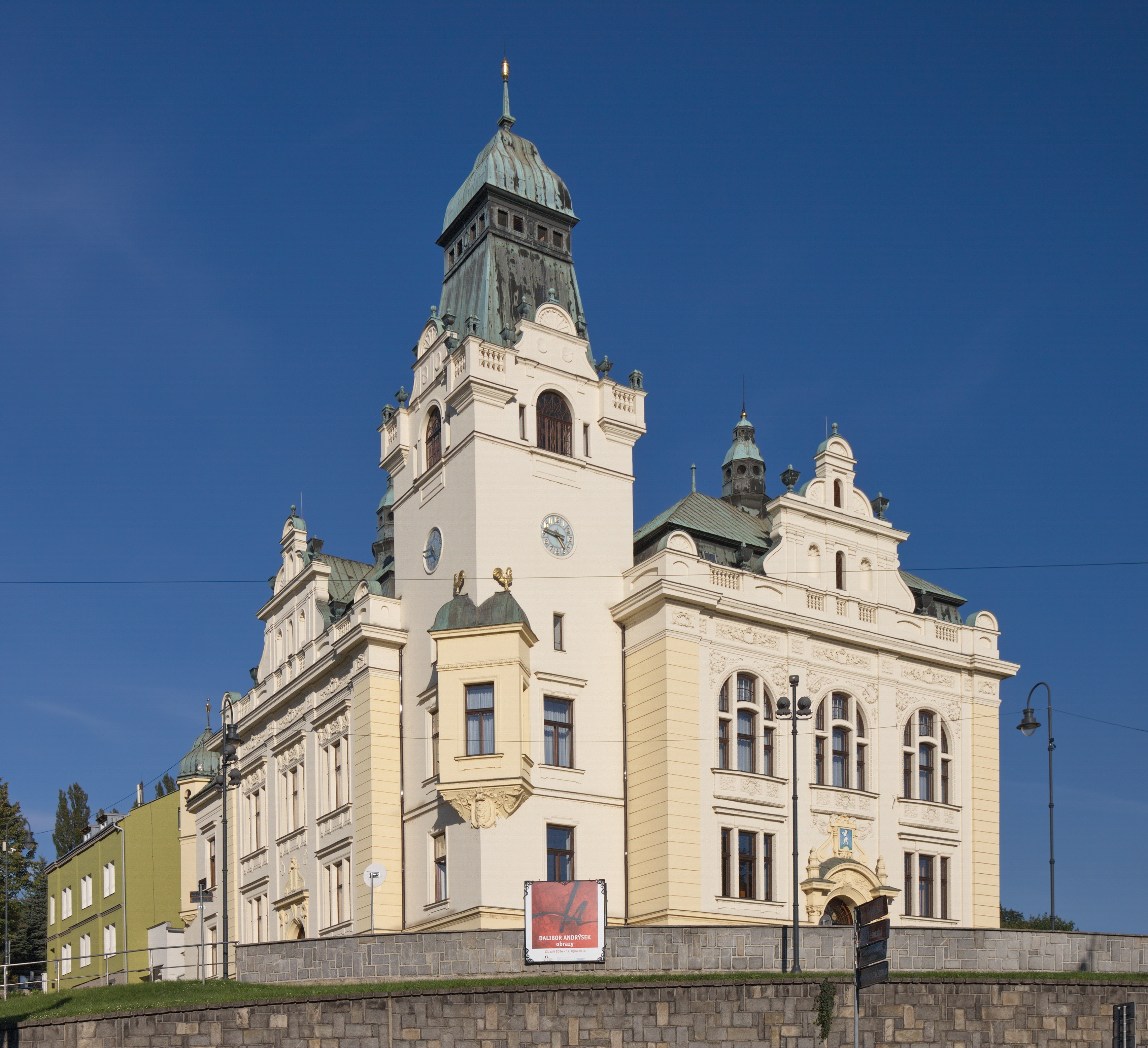 Town hall, Slezská Ostrava, Ostrava. Moravian-Silesian Region, Czech Republic.